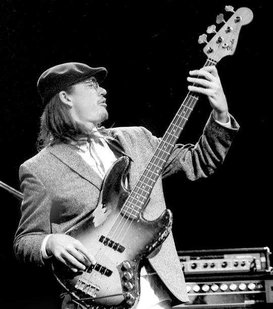 Jaco Pastorius, Jazz at the Opera House, San Francisco CA 2/22/82. Photo: Brian McMillen /